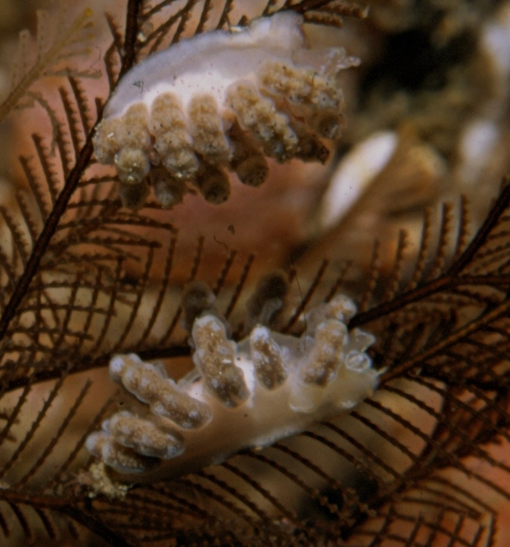 A photograph of the feathered doto, Doto pinnatifida, taken in 25 m of water on the Atlantic side of the Cape Peninsula. Animals about 15 mm total length. Photo taken using Nikonos V camera.